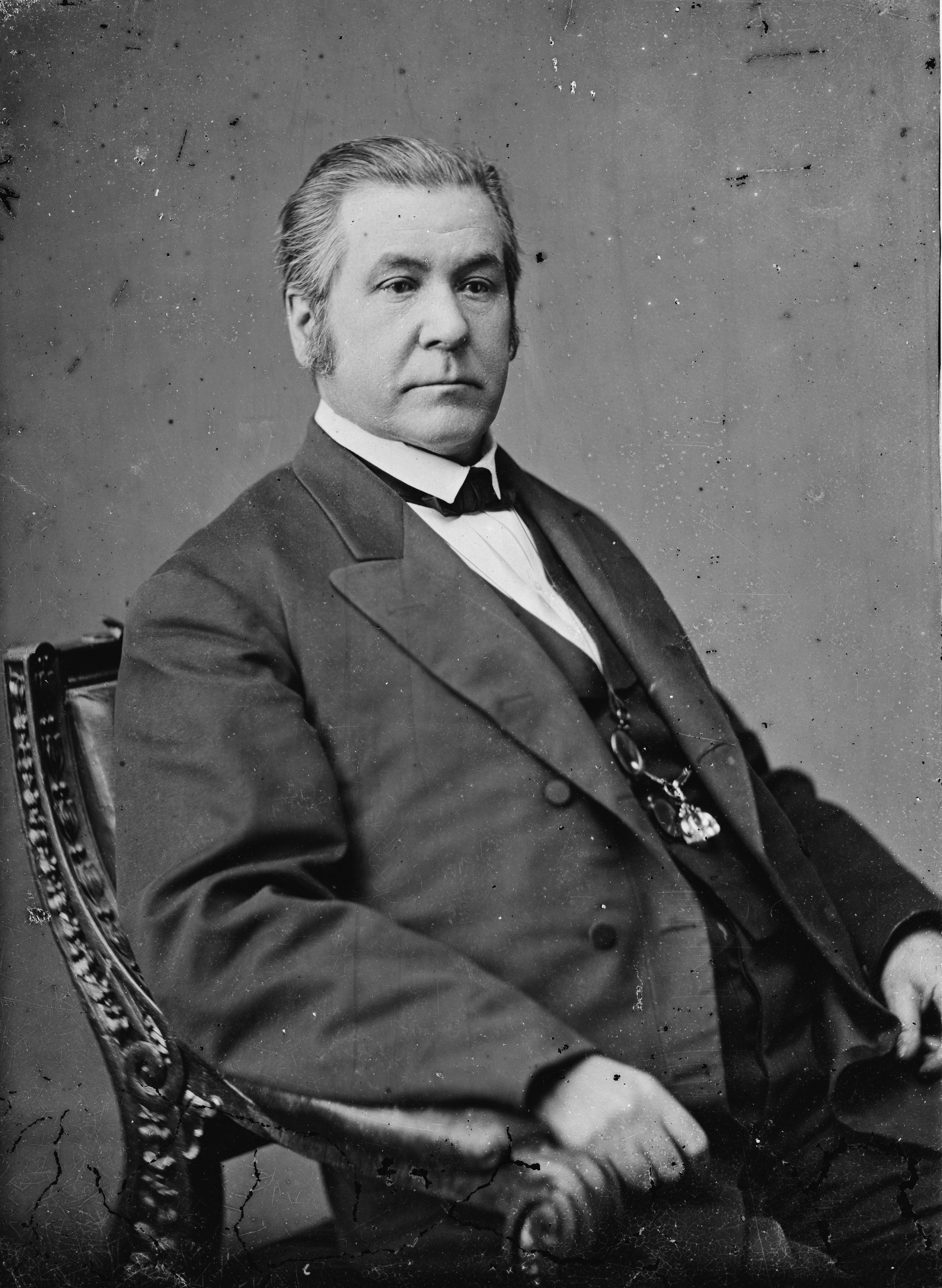 Lewis V. Bogy. Library of Congress description: "Bogy, Hon. Lewis V of Mo."